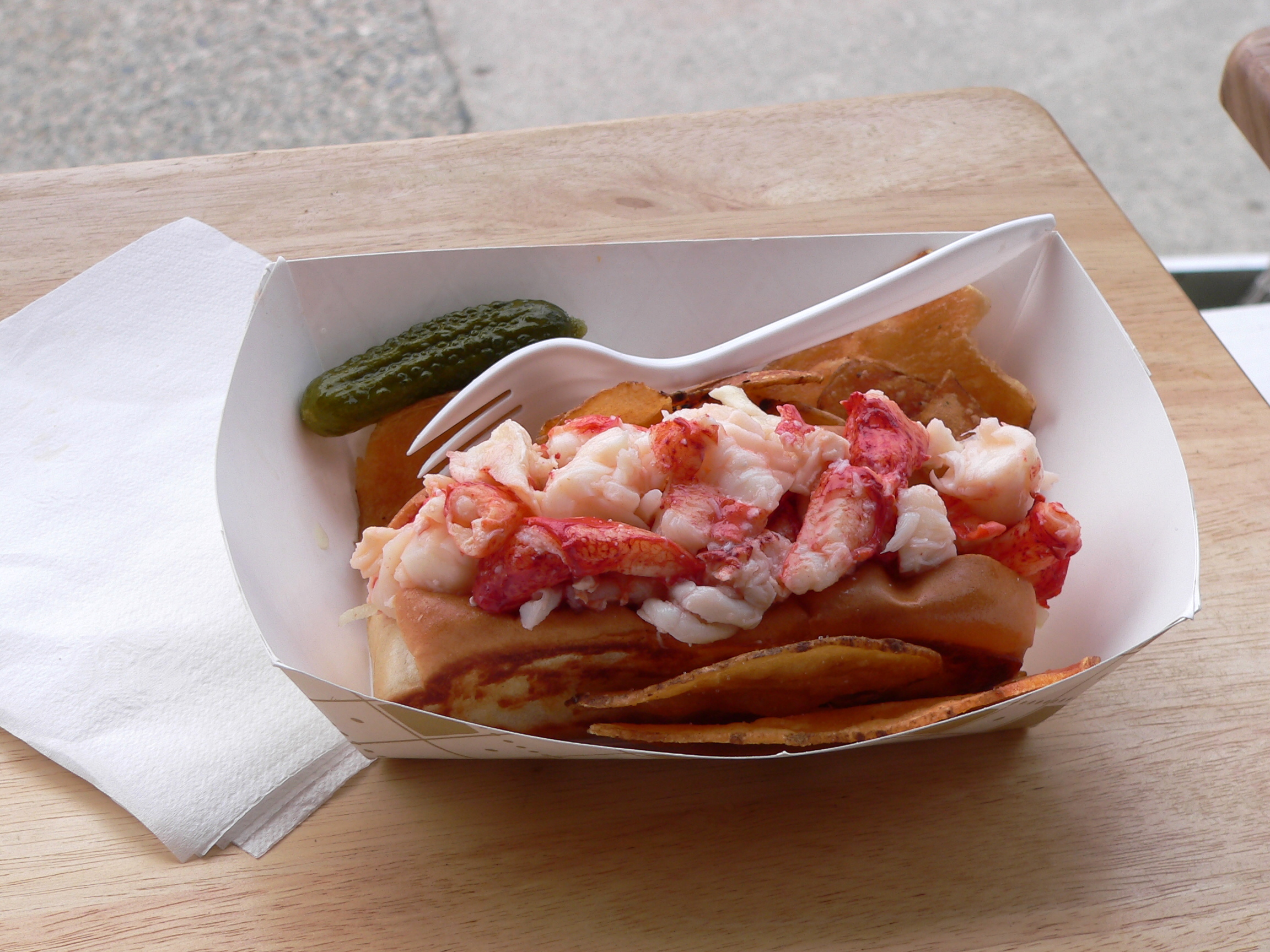 From our trip to Maine in 2008 - a delicious, made-from-scratch lobster roll from The Lobster Claw, on West Street in Bar Harbor, Maine. They use only fresh lobster meat - "no frozen lobster here!" They also make their own potato chips from scratch. I highly recommend it.